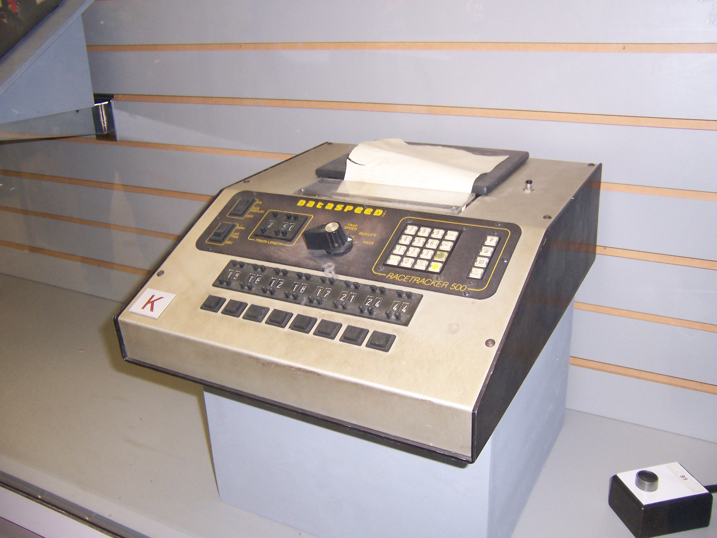 DataSpeed Timing and Scoring System from the Indianapolis 500